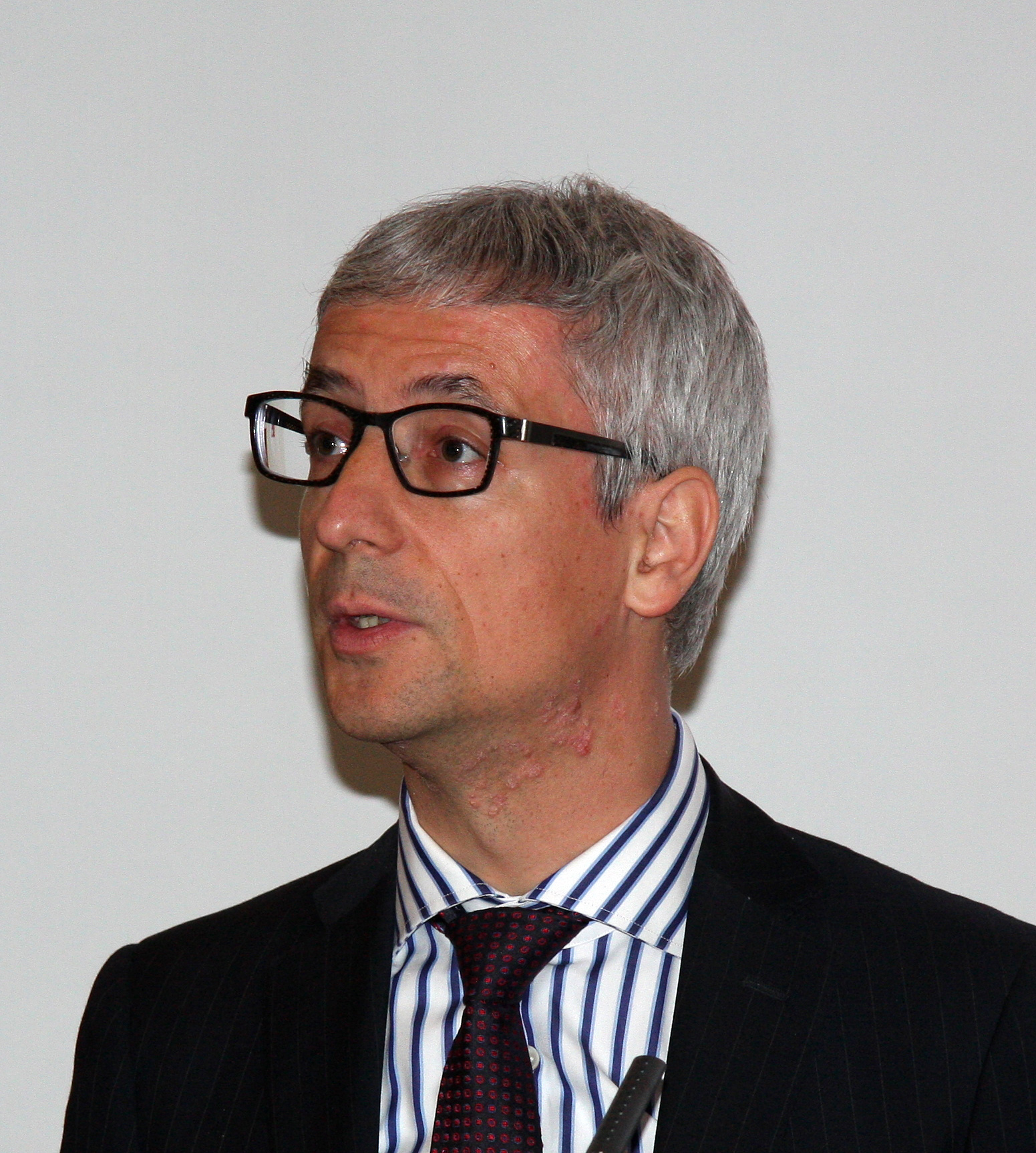 Jernej Pikalo, political scientist and politician from Slovenia